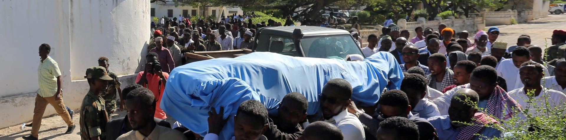 Abass Siraji Body Getting Laid to rest